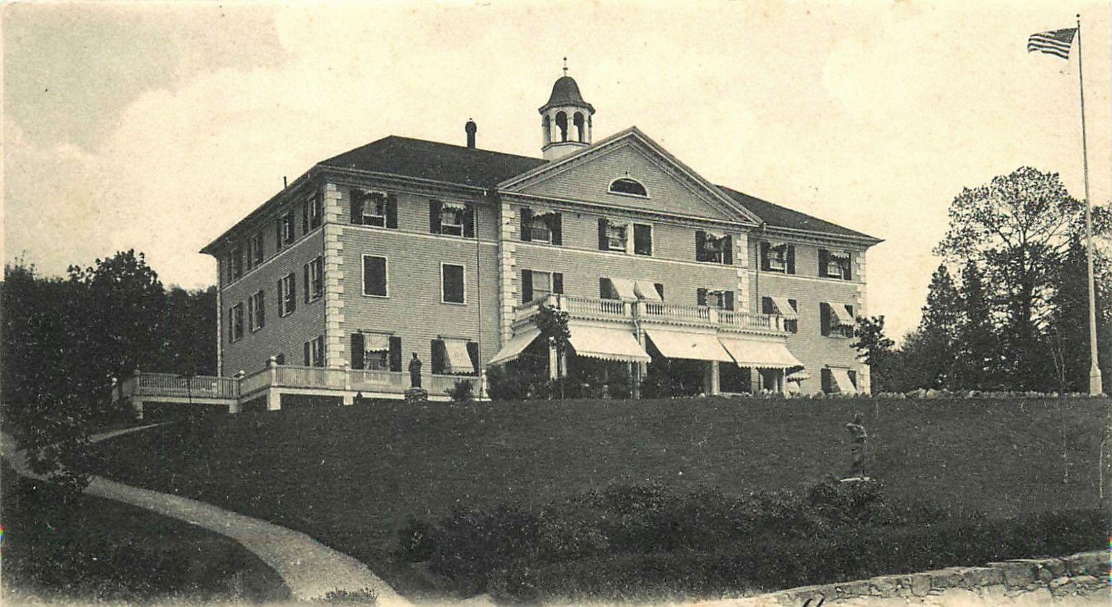 The Pocantico Lodge in Briarcliff Manor. A postcard published as early as 1906, as evidenced by the writing on the postcard (see earlier image version).